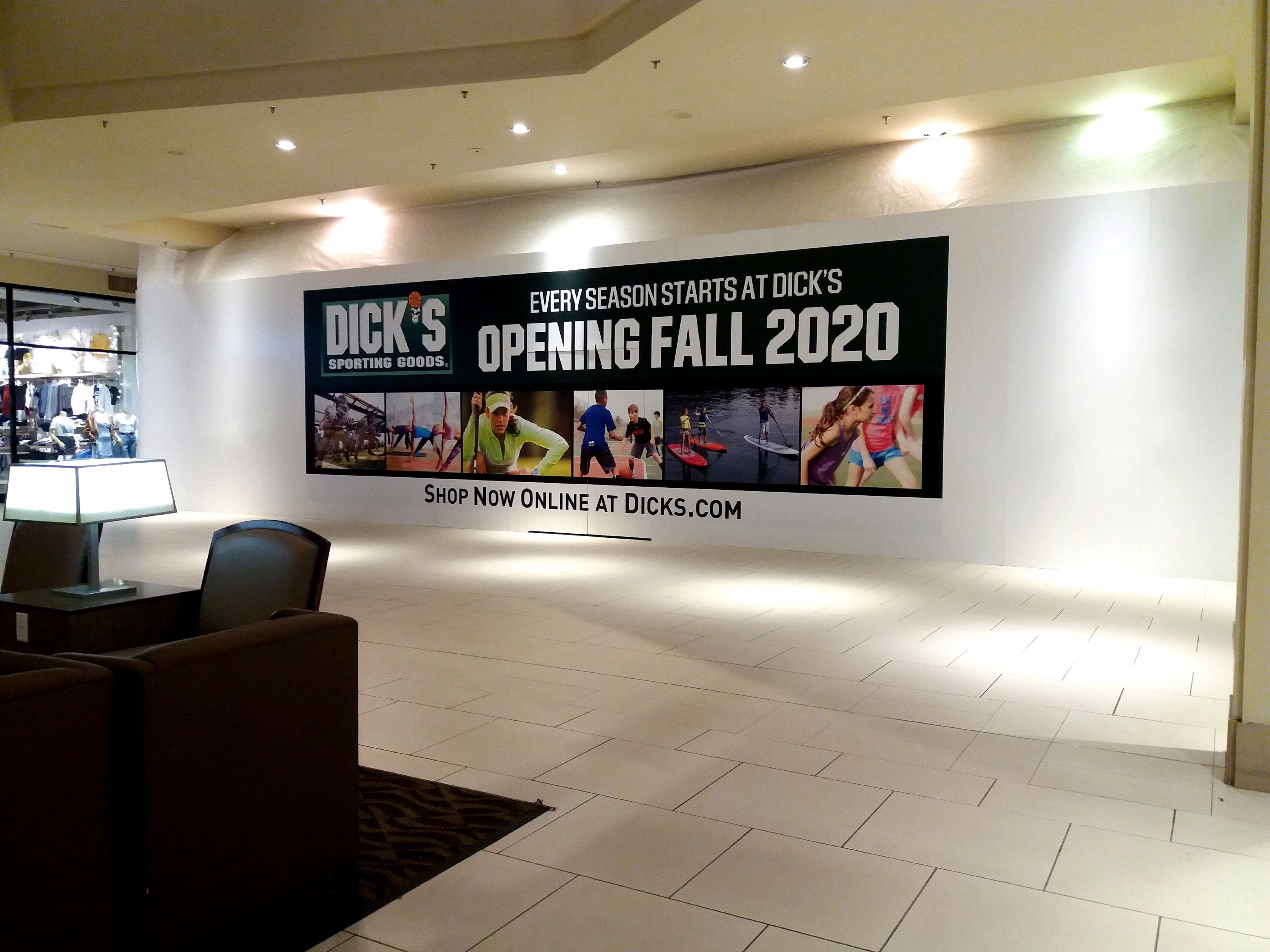 A wall over the lower level of Sears announcing the future home of Dick's Sporting Goods at Deptford Mall.